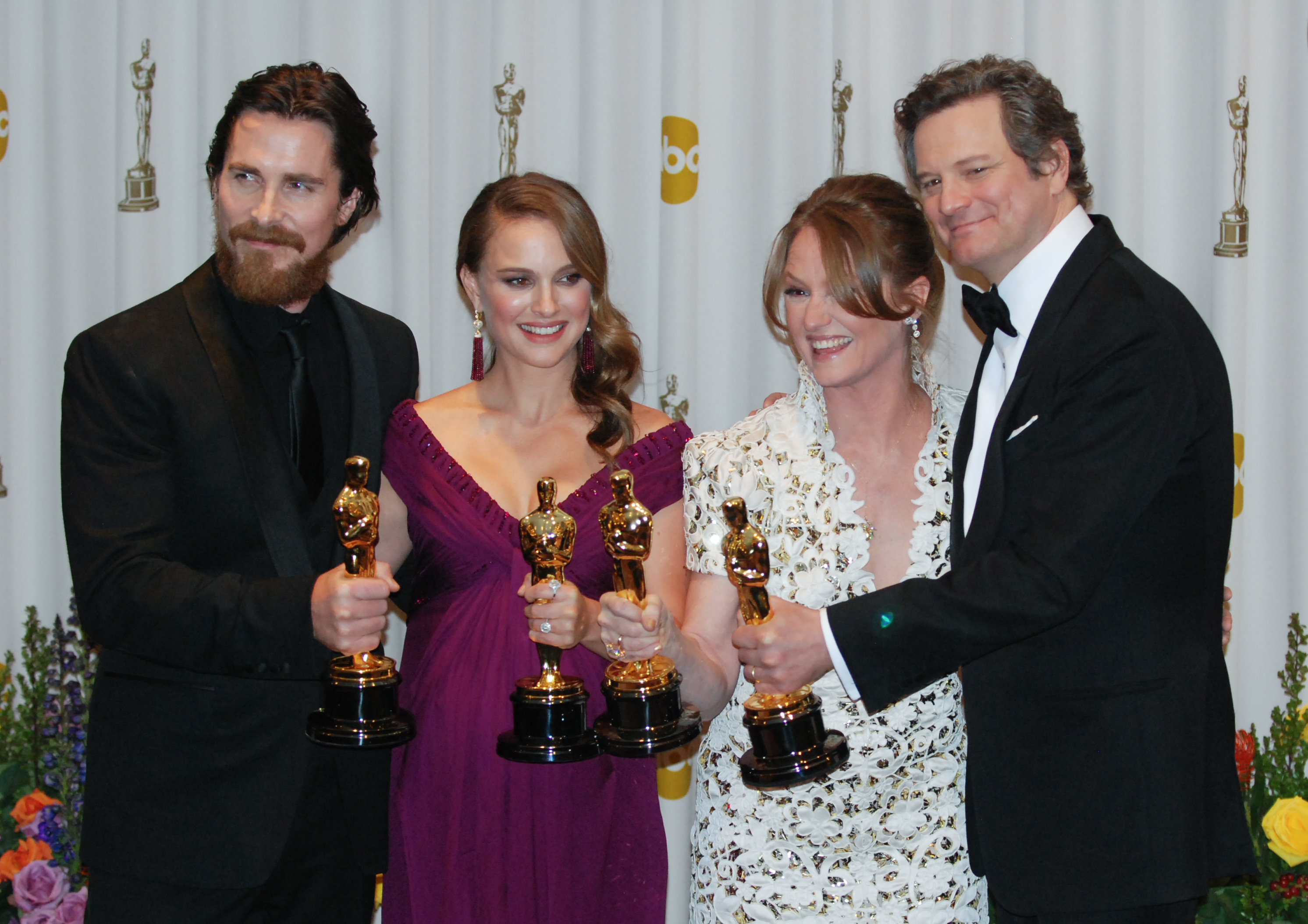 Oscar winners (from left to right) Christian Bale, Natalie Portman, Melissa Leo and Colin Firth pose with their Oscars backstage at the 83rd Academy Awards Feb. 27, in Hollywood, Calif. Portman and Firth won for best actress and actor respectively; Bale and Leo won for best supporting actor and actress respectively.